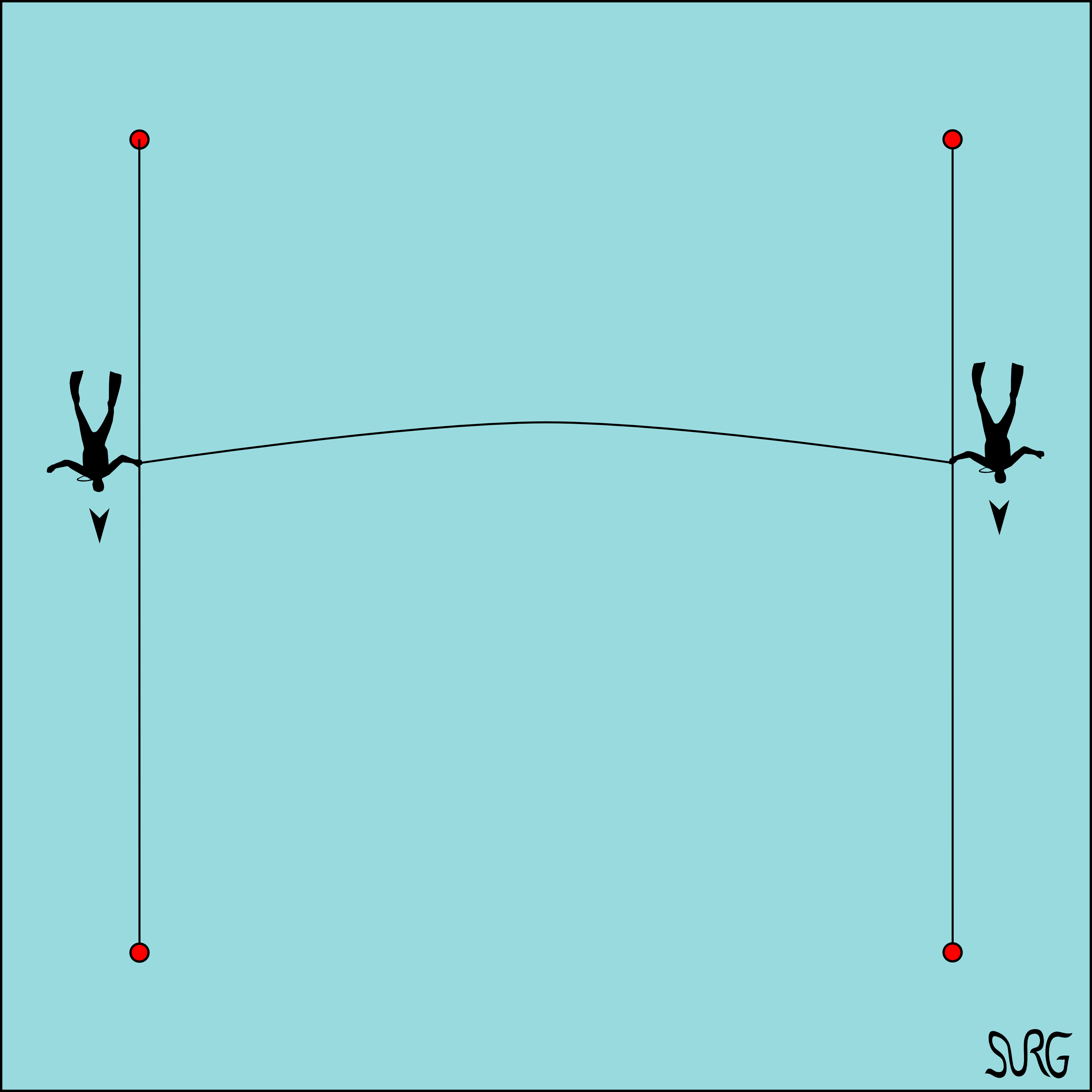 Illustration for underwater snagline search